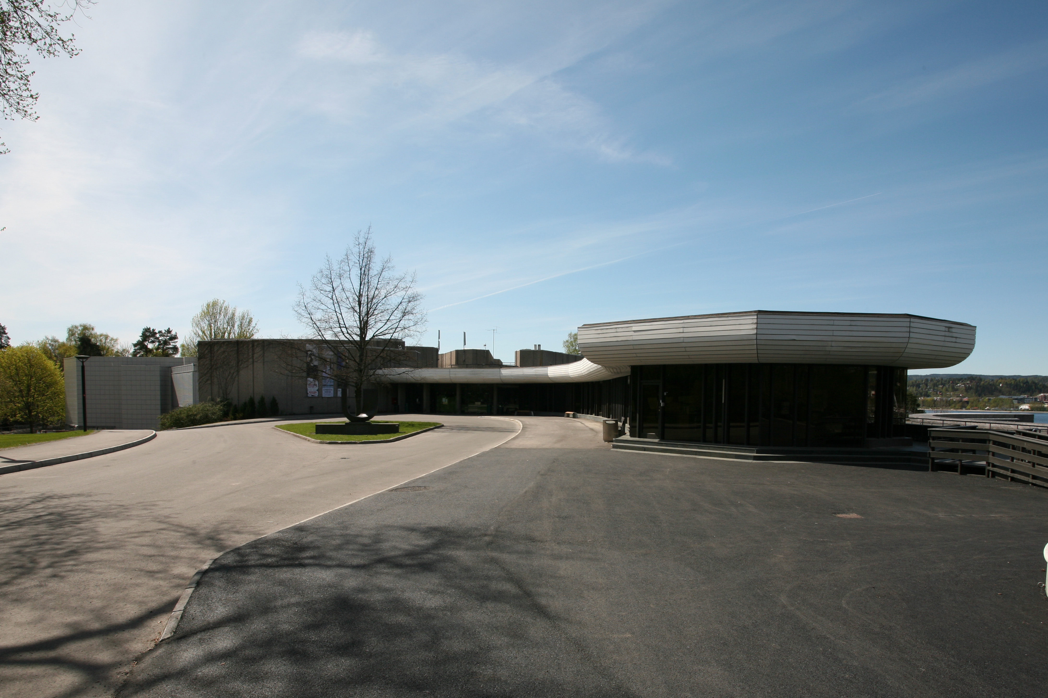 Picture of Henie-Onstad kunstsenter (Norway)